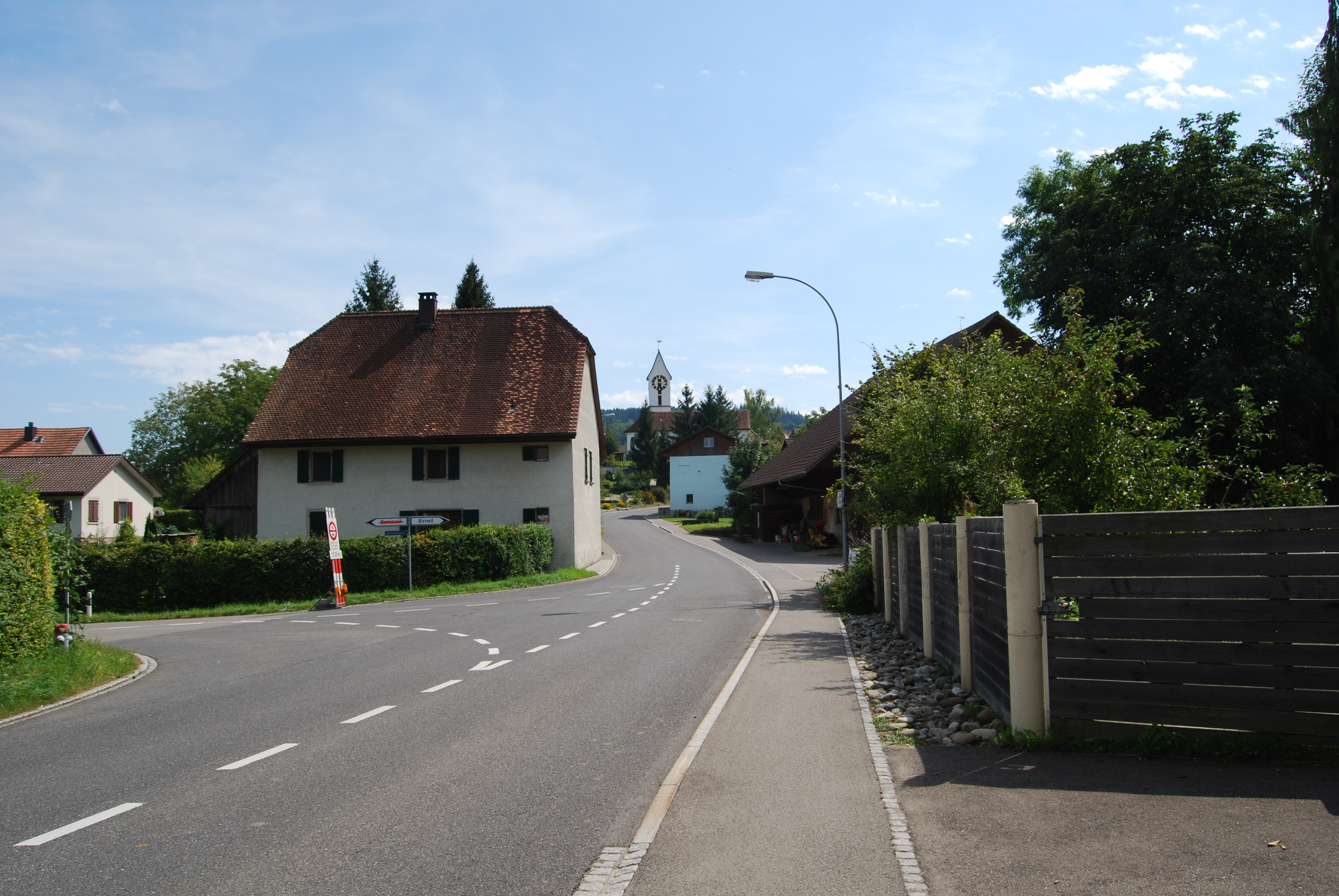 Leutwil, canton of Aargau, SwitzerlandEsperanto: Leutwil, Kantono Argovio, Svislando